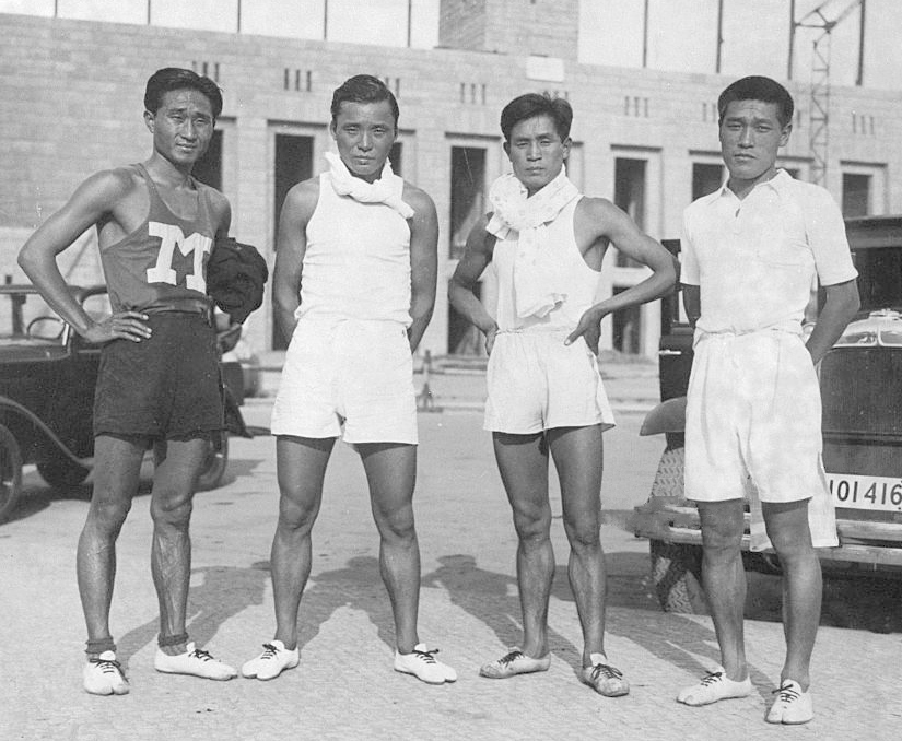 Shoryu Nan or Nam Sung-yong, Tamao Shiwaku, Fusashige Suzuki and Kitei Son or Son Gi-jeong pose for photographs after a training ahead of the Berlin Olympic on June 19, 1936 in Berlin, Germany